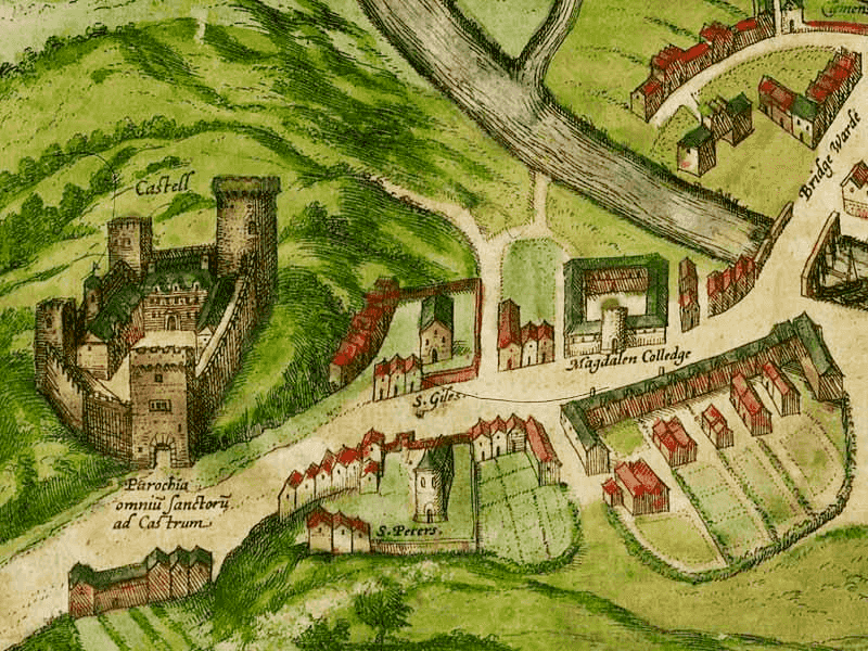 Map of Cambridge dated 1575. The inscription reads: Cantebrigia: opulentissimi Anglie Regni, urbs celeberrimi nominis, ab Academie conditore Cantabro, cognominata: A Granta, fluvio vicino, Cairgrant; saxonib, Grauntecestre, et Grantebrige, iam olim nuncupata.